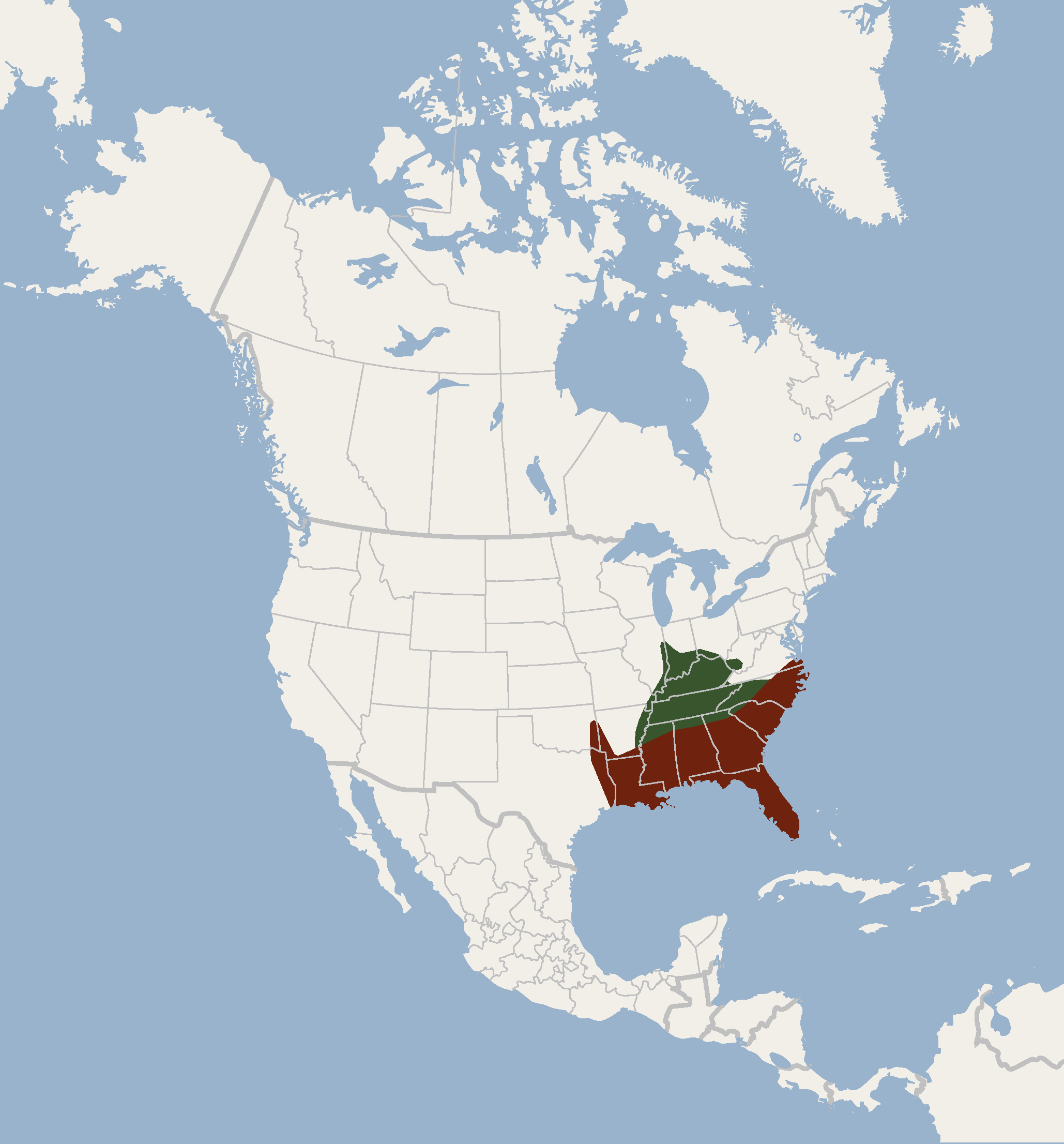 According to